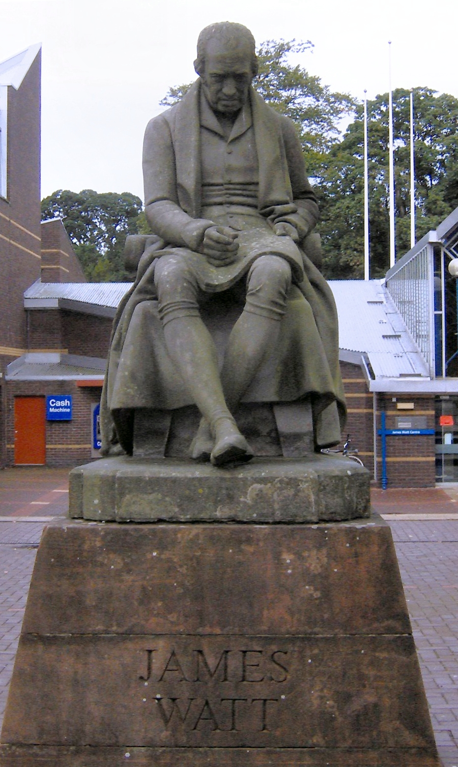 Statue of James Watt at Heriot-Watt university. This statue was made by Peter Slater who taught ornamental modelling at the University's predecessor, the Watt Institution and School of Arts. The statue was unveiled in 1854 after which students and staff celebrated all night and formed the Watt Club – now the oldest graduate association in the UK. This statue is based on one by Sir Francis Chantrey, which is currently found in the entrance hall of the National Portrait Gallery, Queen Street, Edinburgh.